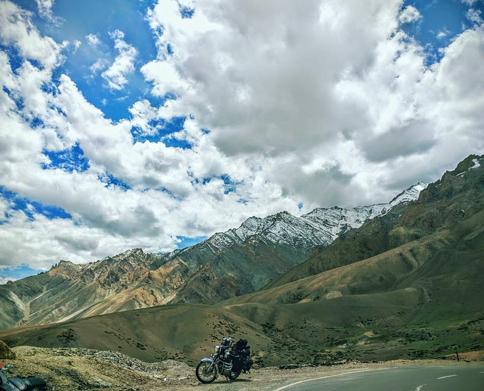 Ladak muzeed